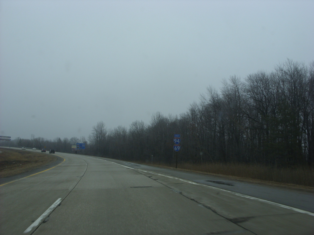 Interstate 94/Interstate 69 eastbound near Port Huron, Michigan